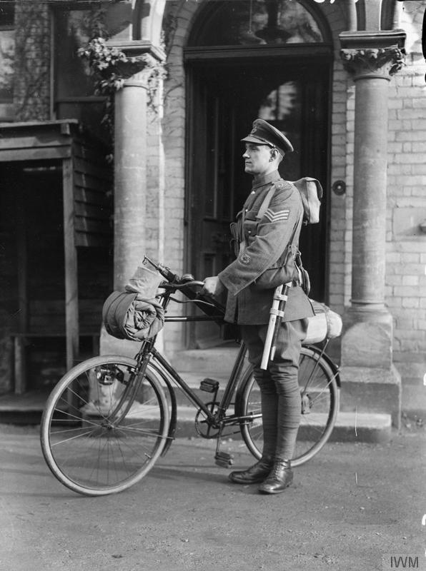 The British Army on the Home Front, 1914-1918 Sergeant of the cyclist battalion of the Dorset Regiment in marching order.